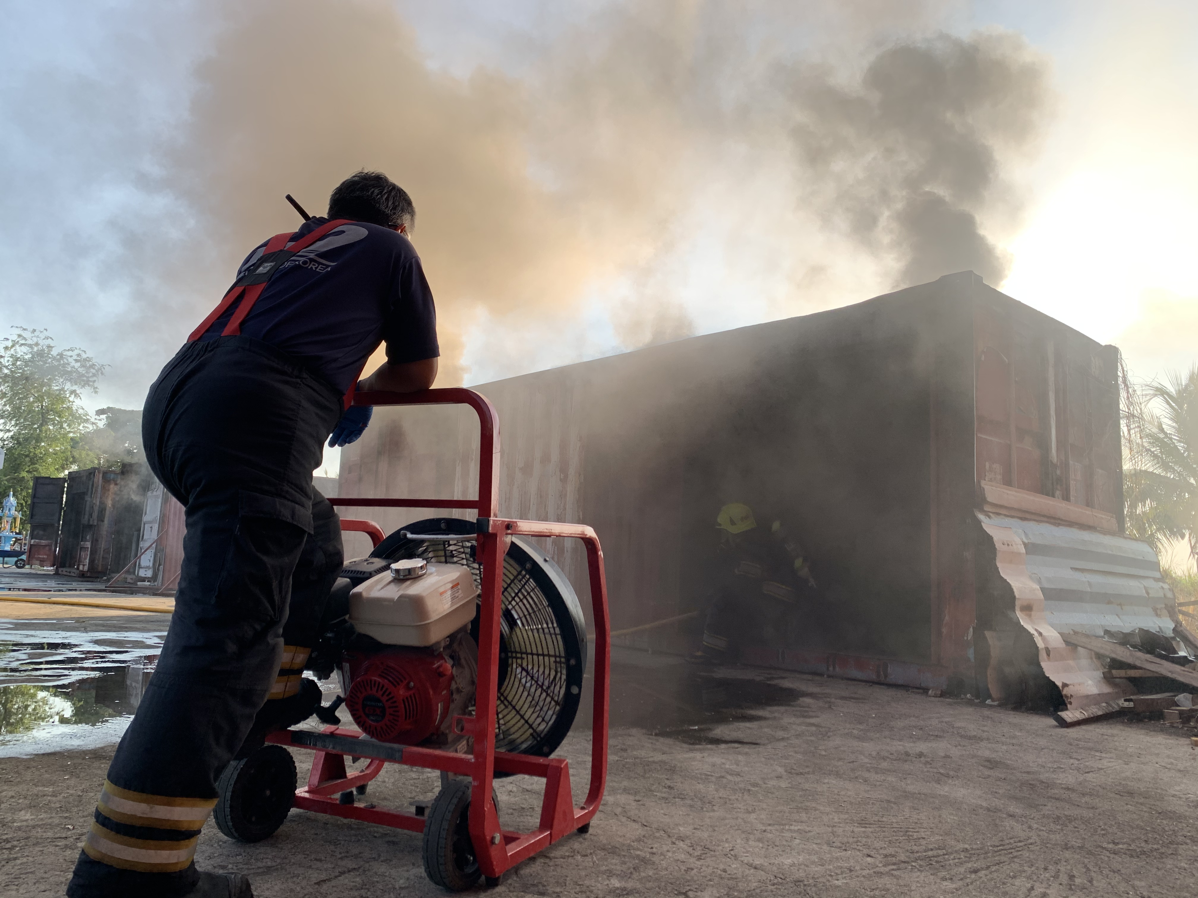 2019 CFBT-I Instructor and Tactical Ventilation Instructor International Course